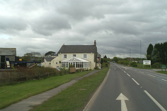 The eponymous pub at Victoria on the A30.